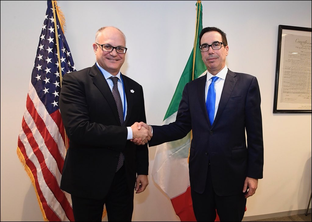 Yesterday I had a productive discussion with Italian Finance Minister @gualtierieurope at the #IMFMeetings2019.